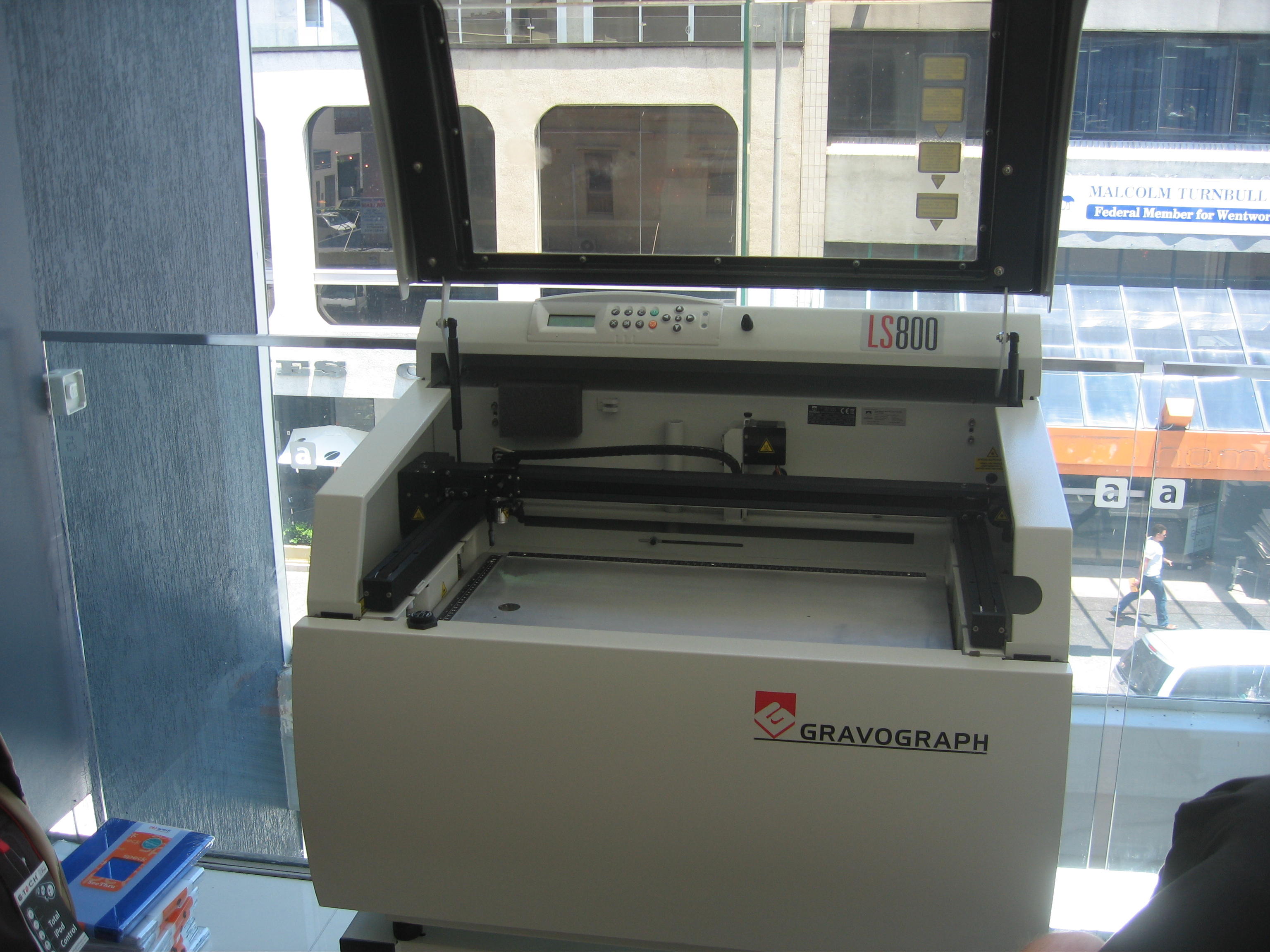 A Gravograph LS800 laser engraving machine